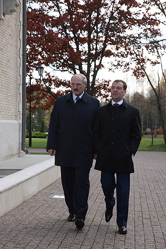 MEIENDORF CASTLE, MOSCOW REGION. With President of Belarus Alexander Lukashenko.